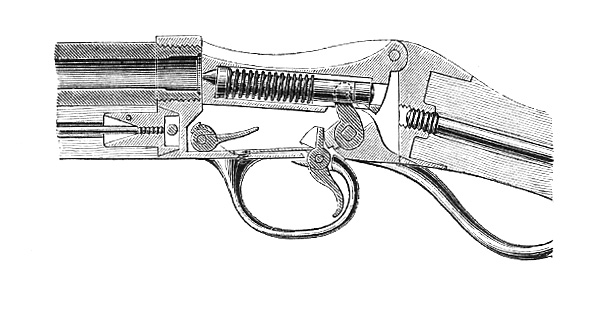 Peabody-Martini rifle action